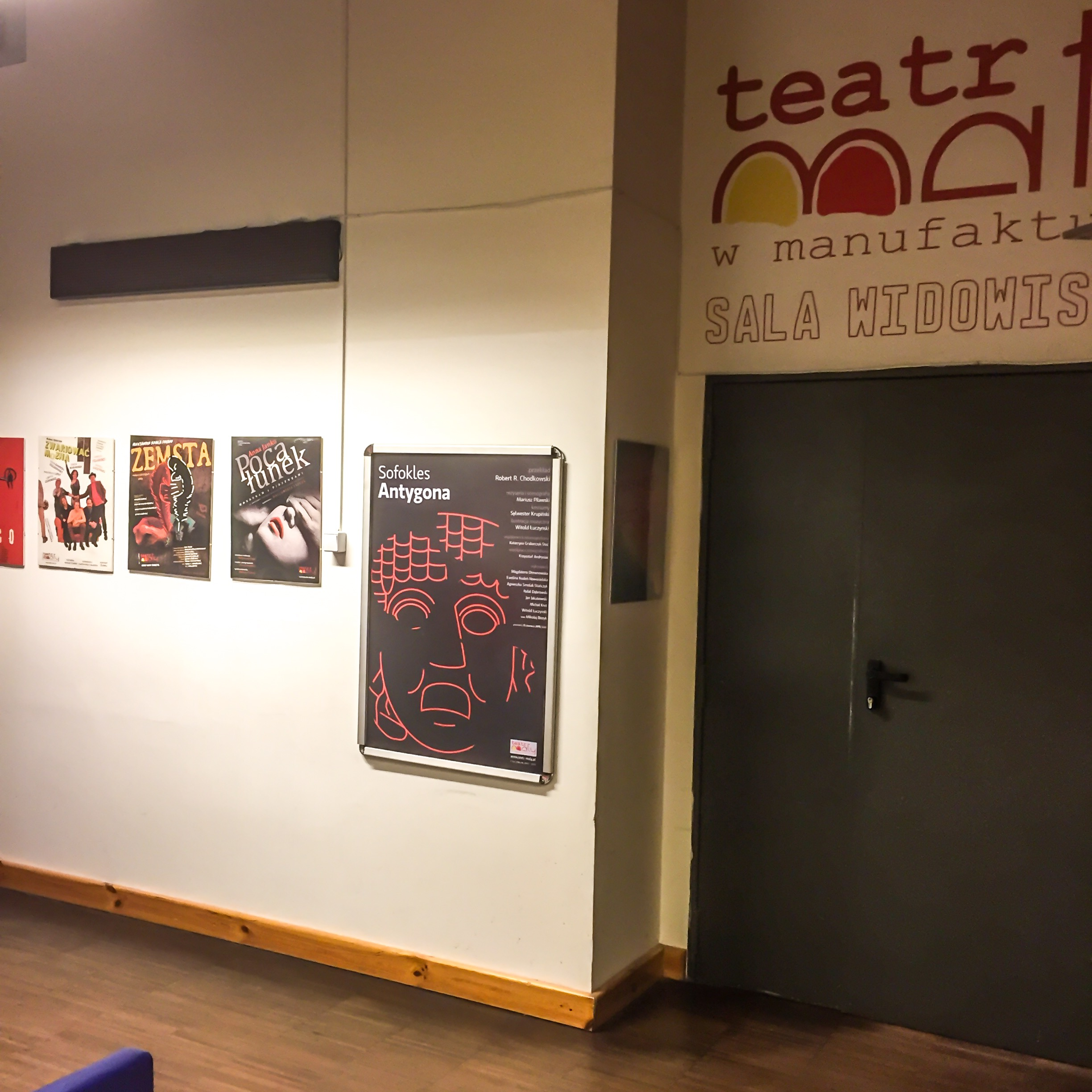 The Small Theatre in Łódź, foyer (December 2019)